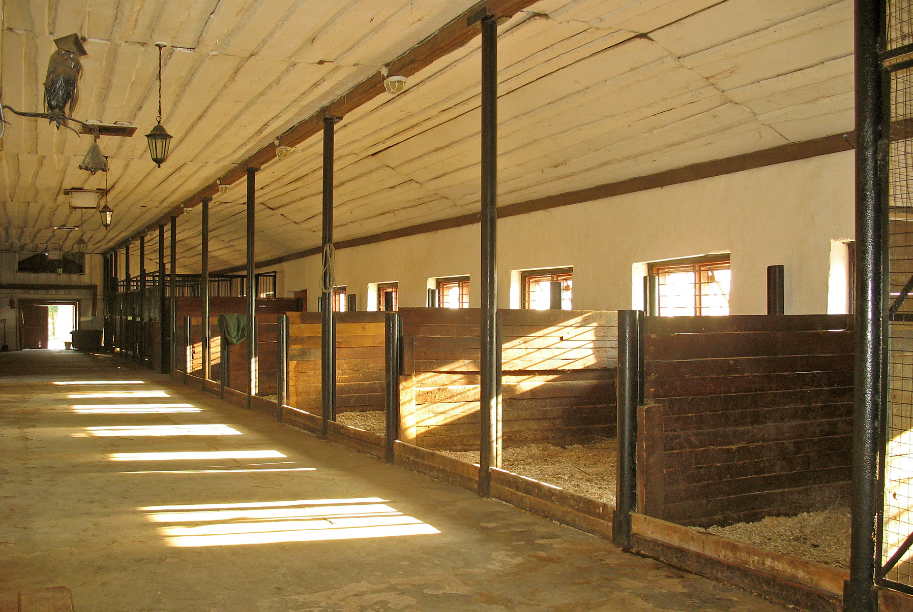 Stable in Mozhaisk (Moscow region)